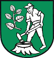 Coat of Arms of Bernterode